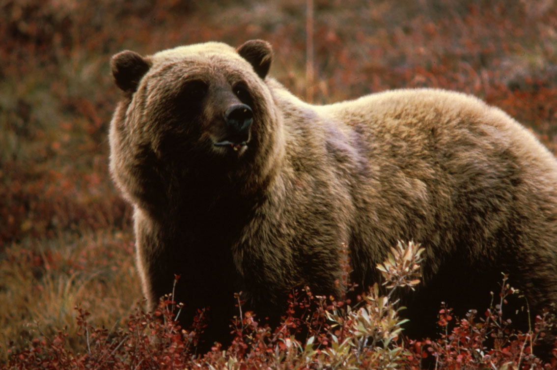 Brown Bear